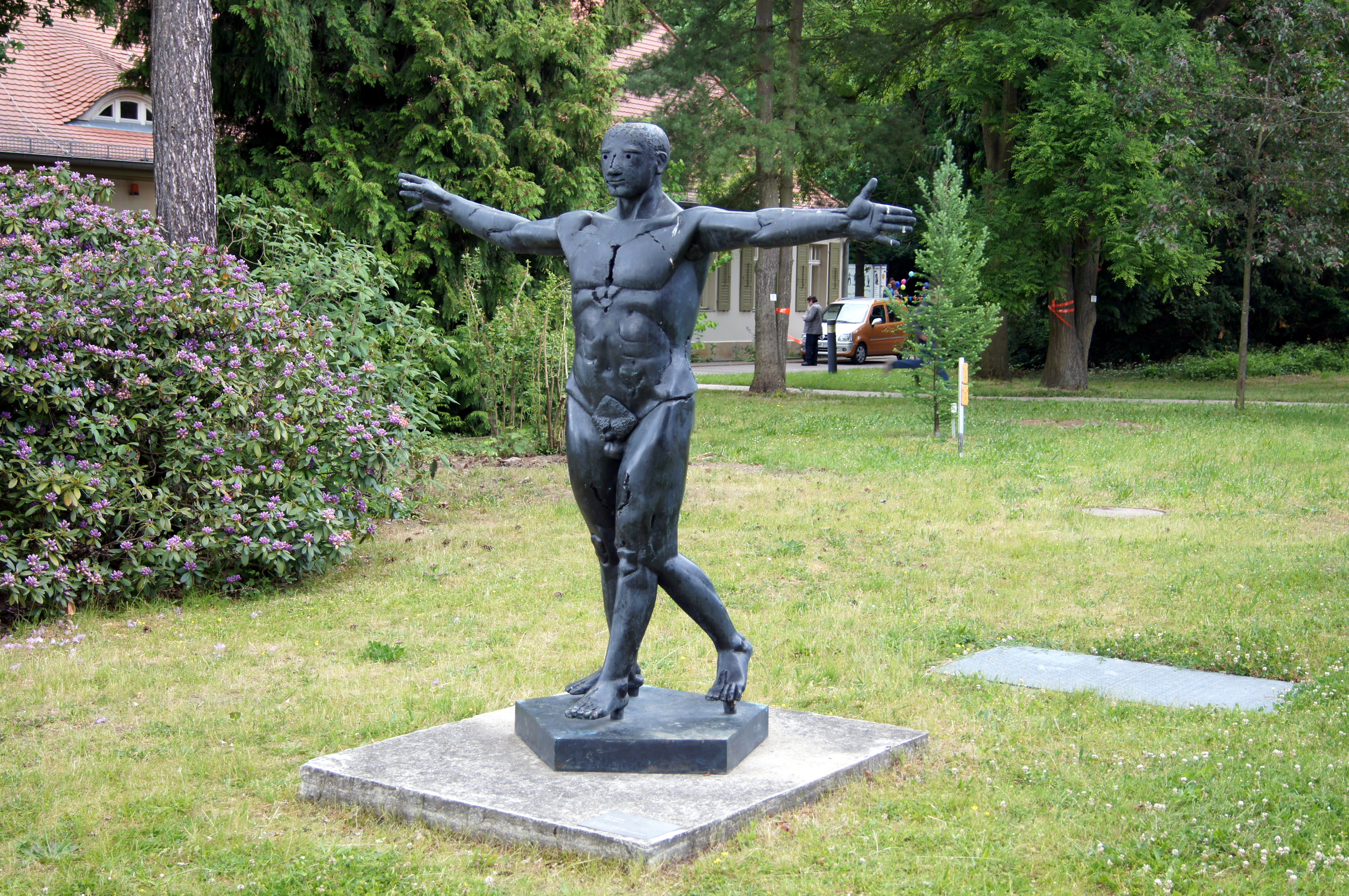 Sculpture "L'Homme" by Jean Ipoustéguy, 1963 at Campus Berlin-Buch, Germany during the Long Night of Sciences 2012.